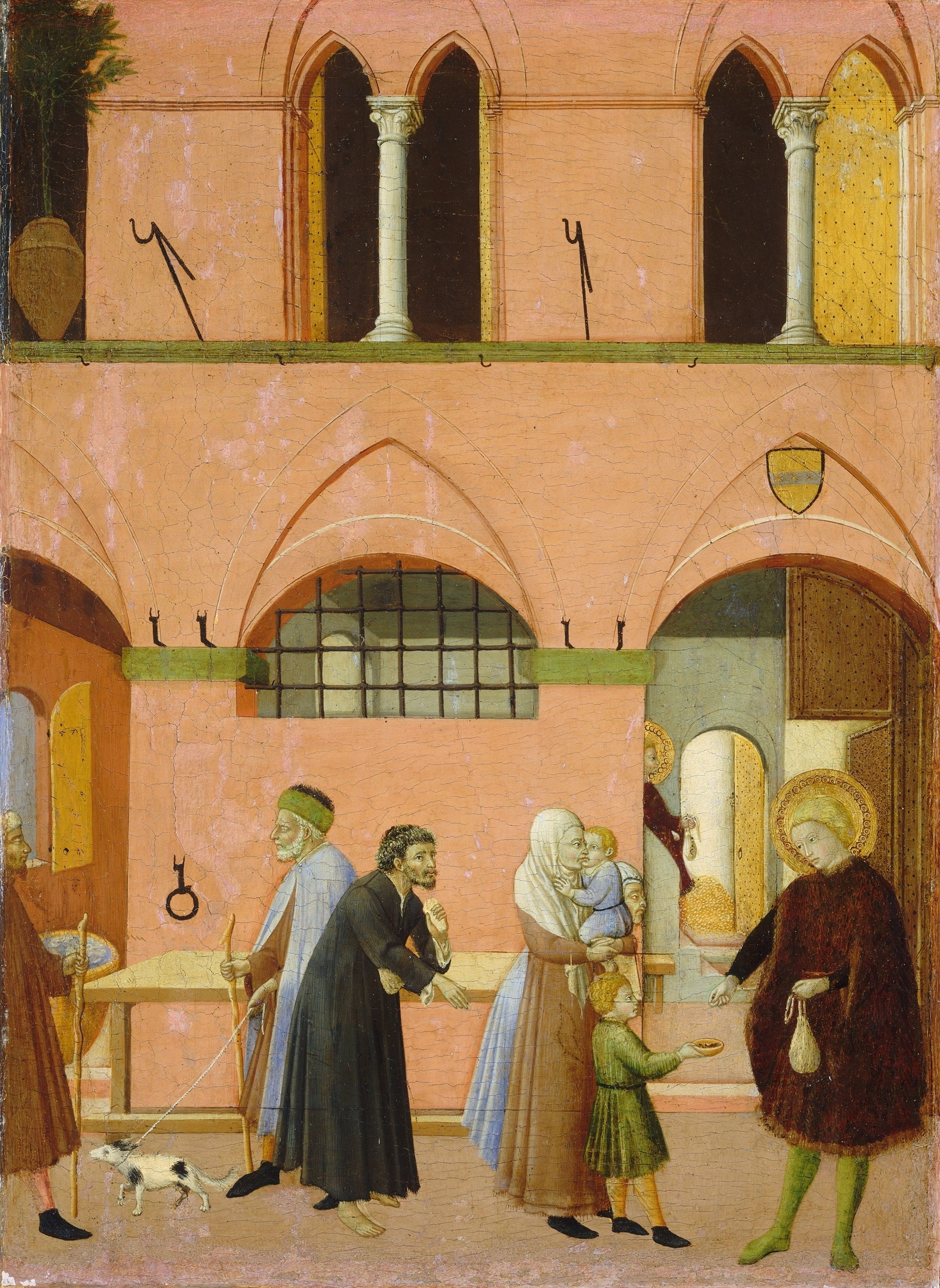 Osservanza Master. Saint Anthony Distributing His Wealth to the Poor. 1430-35, Washington NGA